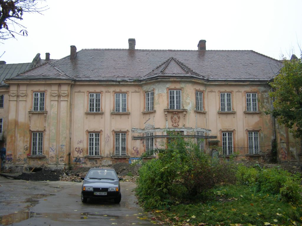 Besyadetski Palace in Lviv, Ukraine